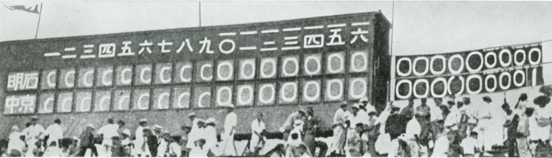 The 19th Japanese High School Baseball Championship 1933 where Masao Yoshida led Chukyo High School in its 25-inning shutout defeat of Akashi High School.